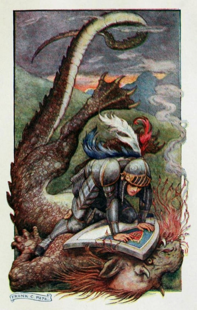 Sir Calidore overthrows the Blatant Beast The Defeat of the Blatant Beast from The Faerie Queene